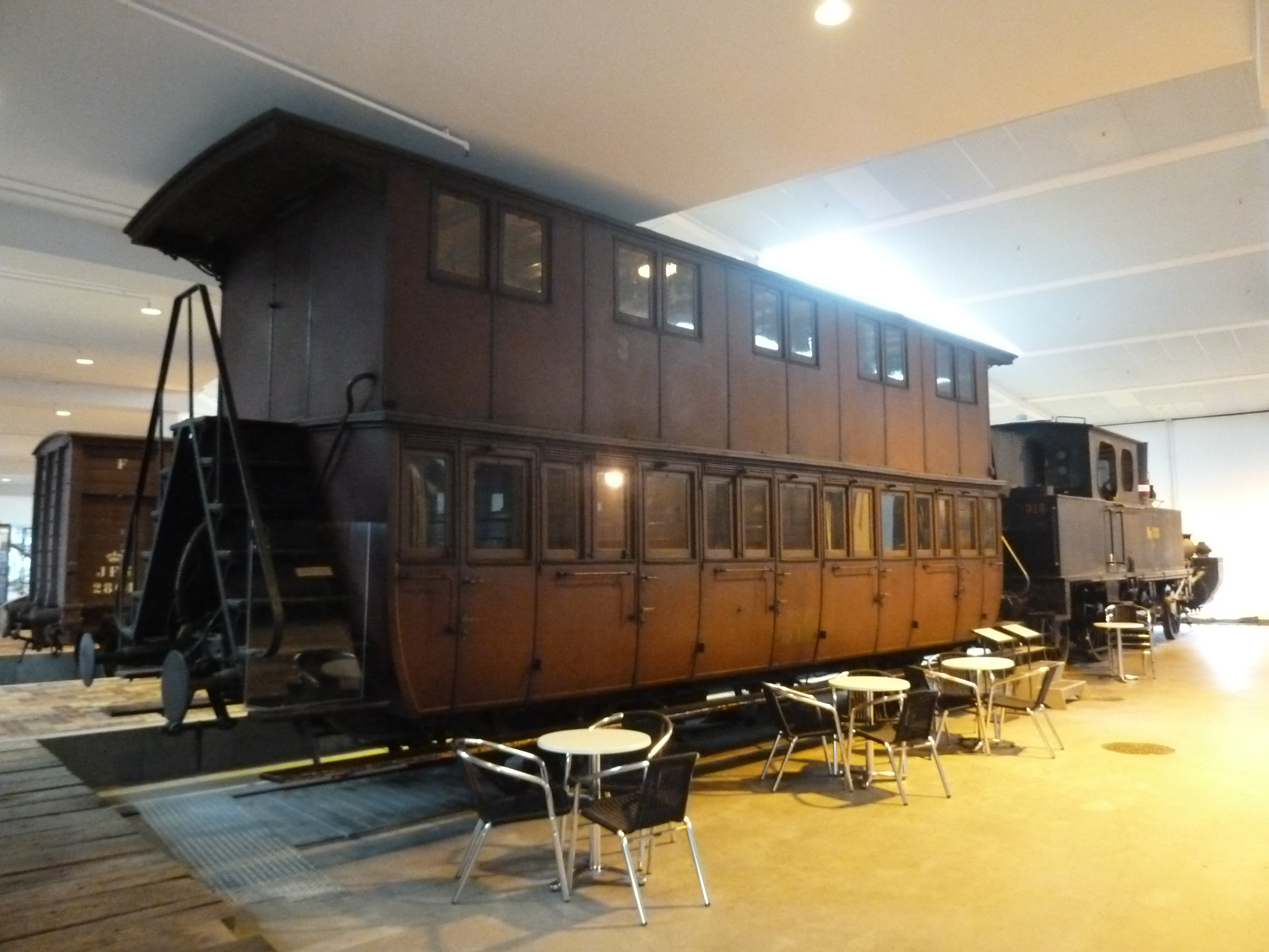 Double-decker coach from DSB, CO 10498, now in Danmarks Jernbanemuseum.